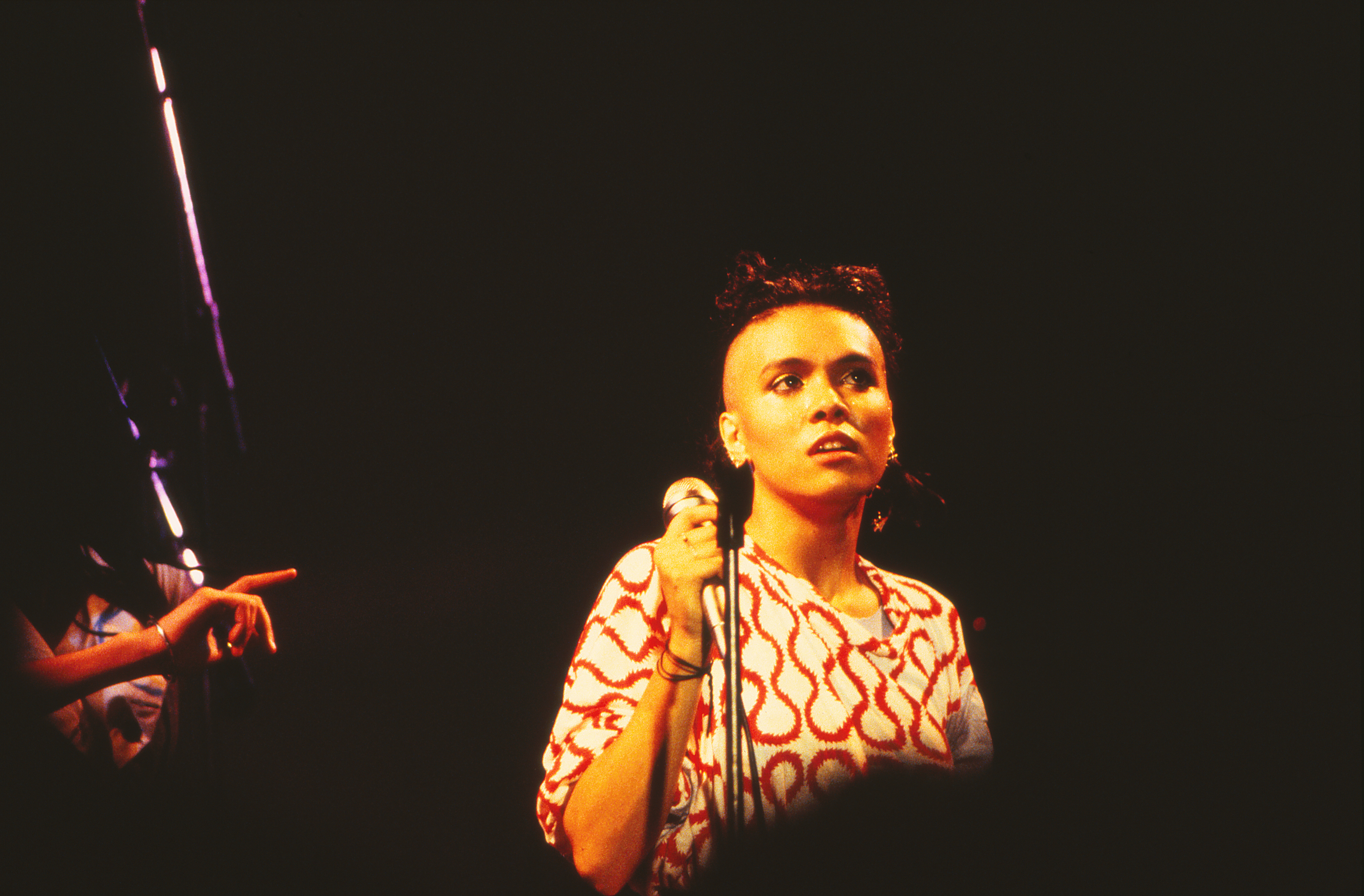 Annabella Lwin with Bow Wow Wow 1982 at Kant-Kino, berlin